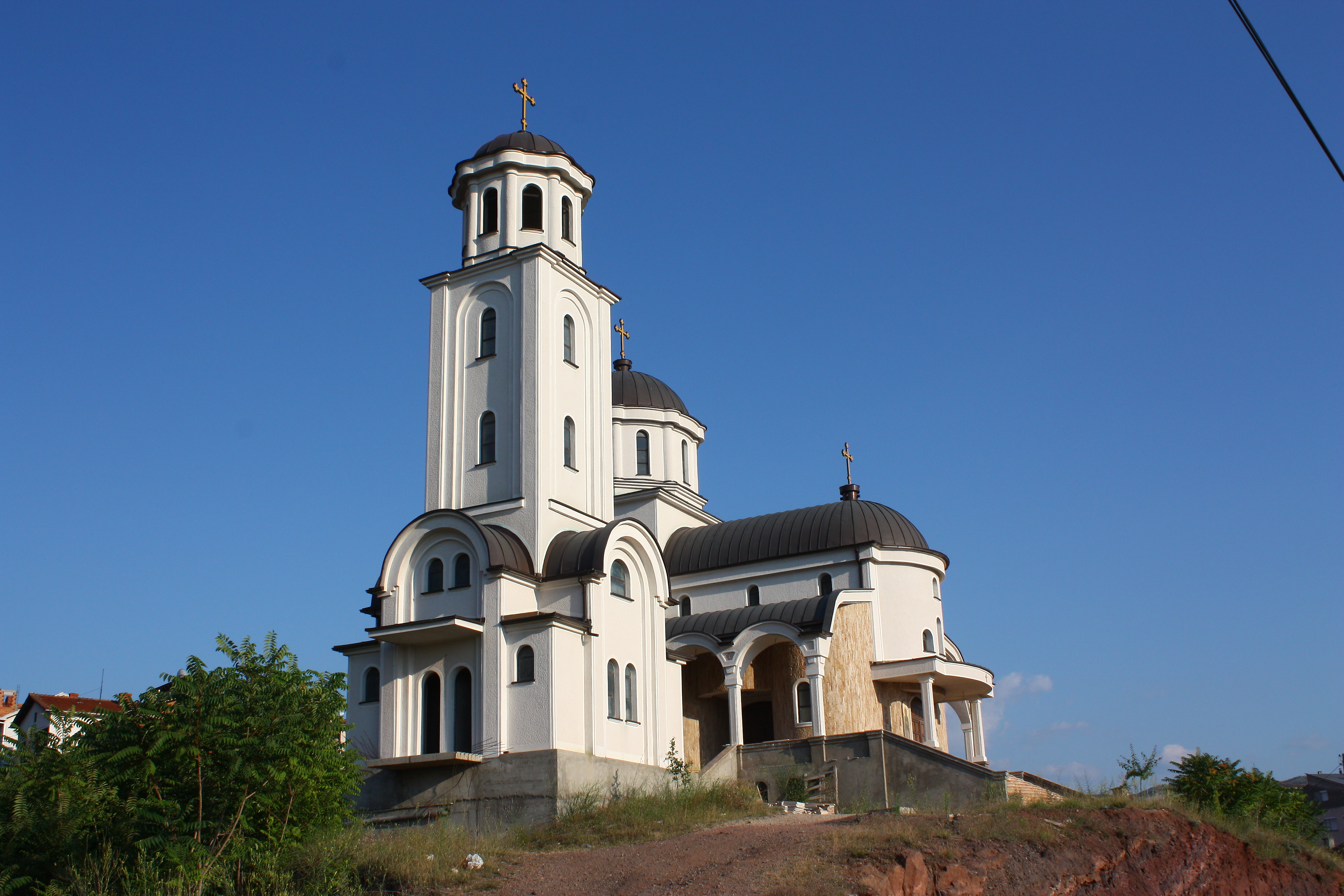 St. Clement of Ohrid Church in Štip, Macedonia